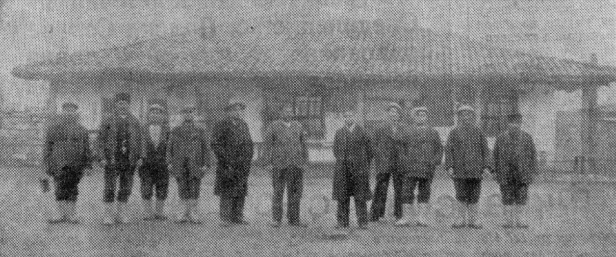 The first biulding of the cooperative